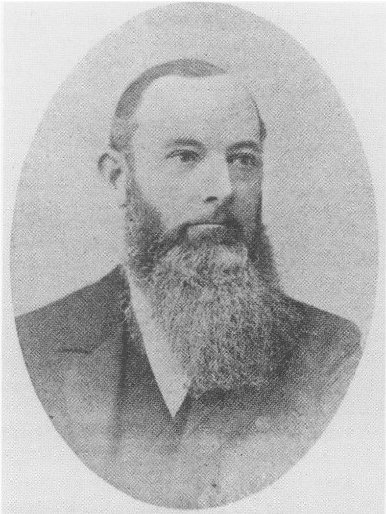 Sir Harry James Veitch